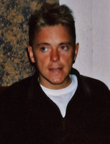 New Order's Bernard Sumner backstage after the band's show at the Greek Theatre in Berkeley, California - September, 1987, contemplating his masterpiece TRUE FAITH